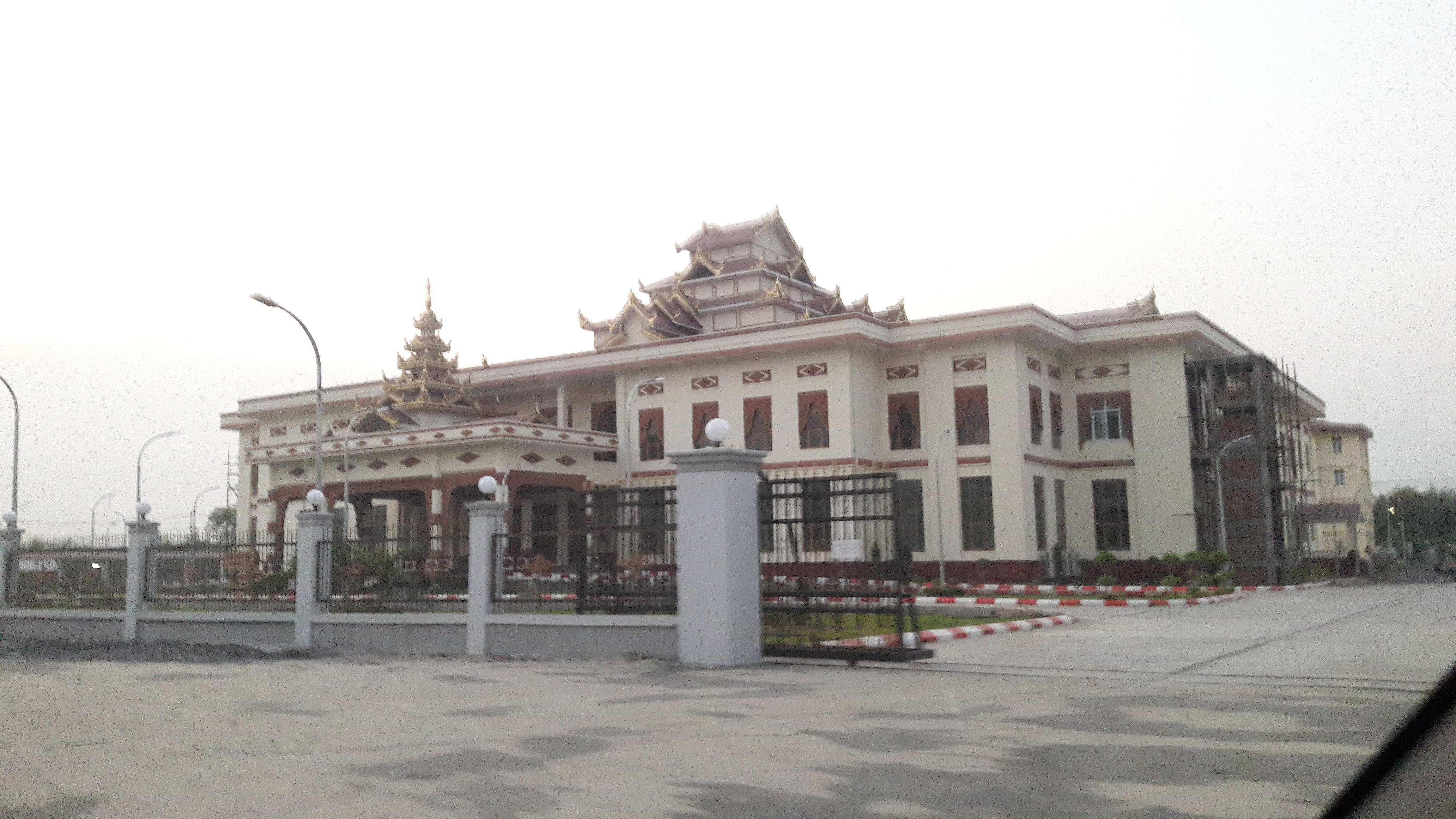 The New Building of Mandalay Region Hluttaw (Parliament).